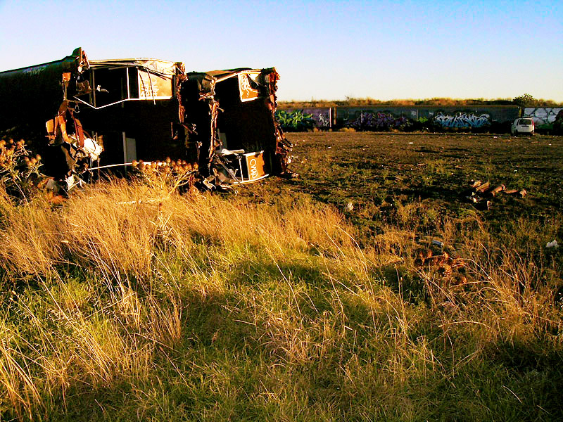 Hitachi (train) being scrapped out at Brooklyn. first shoot from a train wreckin' yard